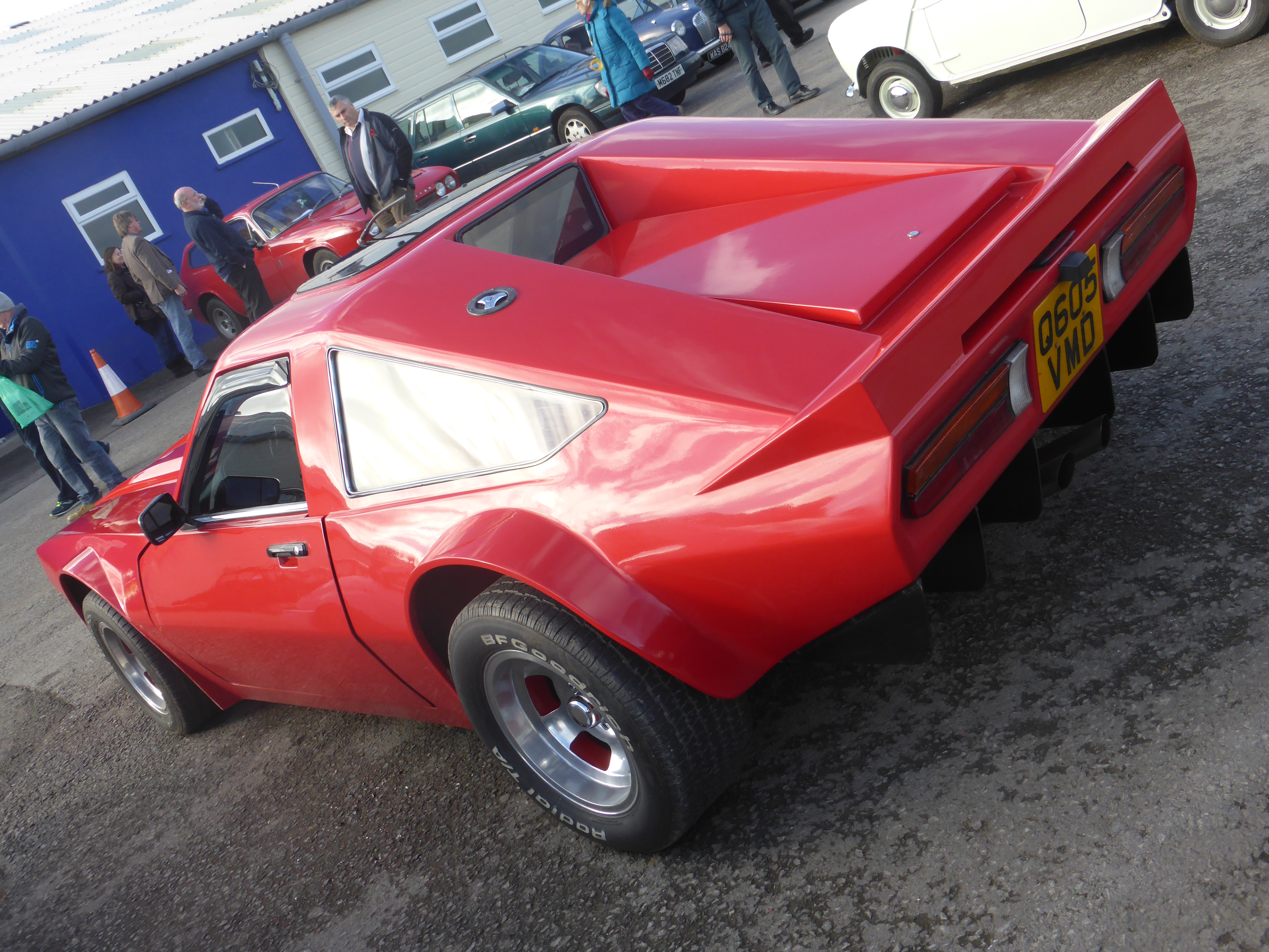 One of only 17.... Footman James Classic Vehicle Restoration Show, Bath & West Showground, near Shepton Mallet